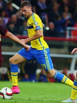 Marcus Berg